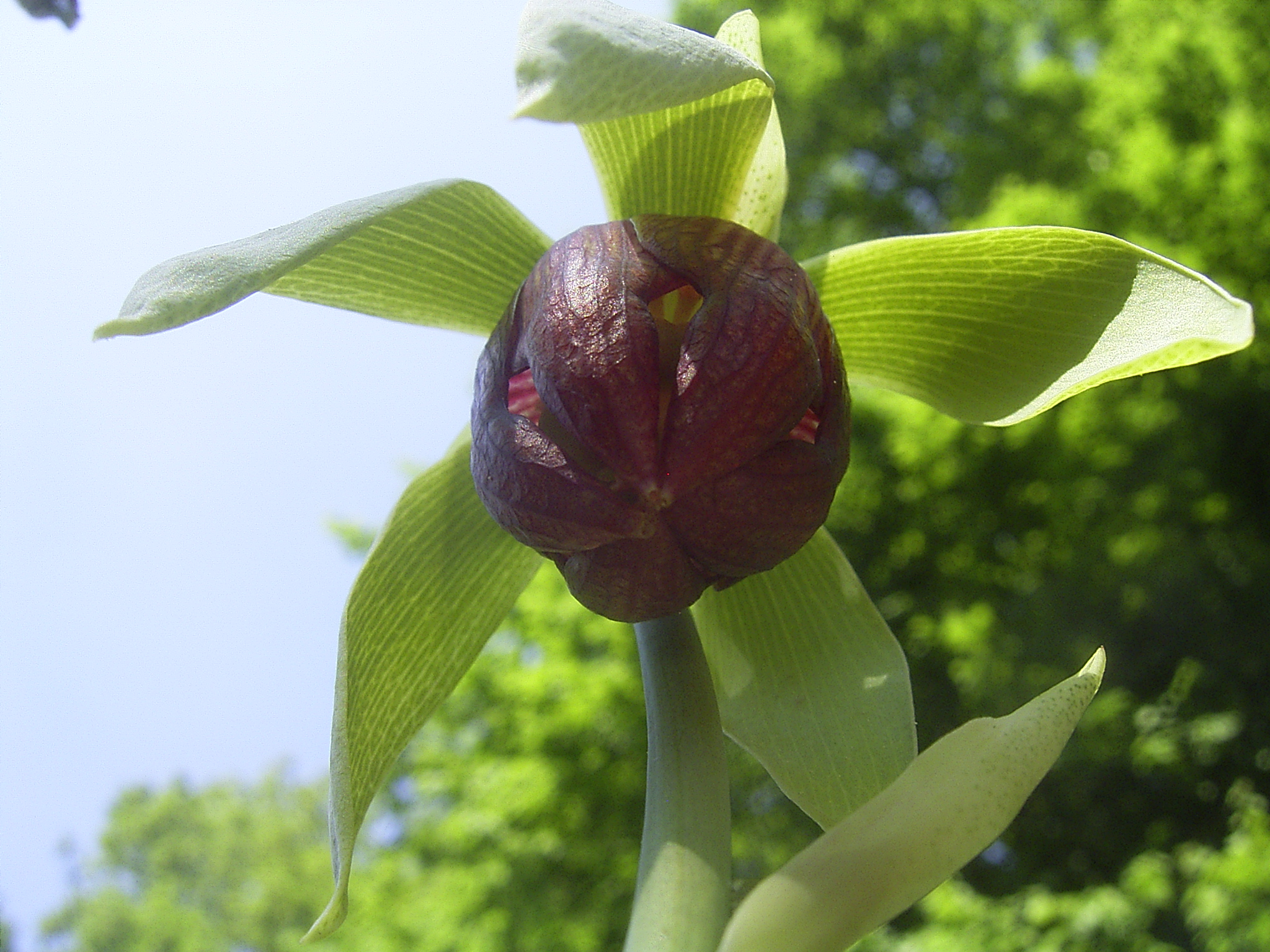 Darlingtonia californica — California pitcher plant